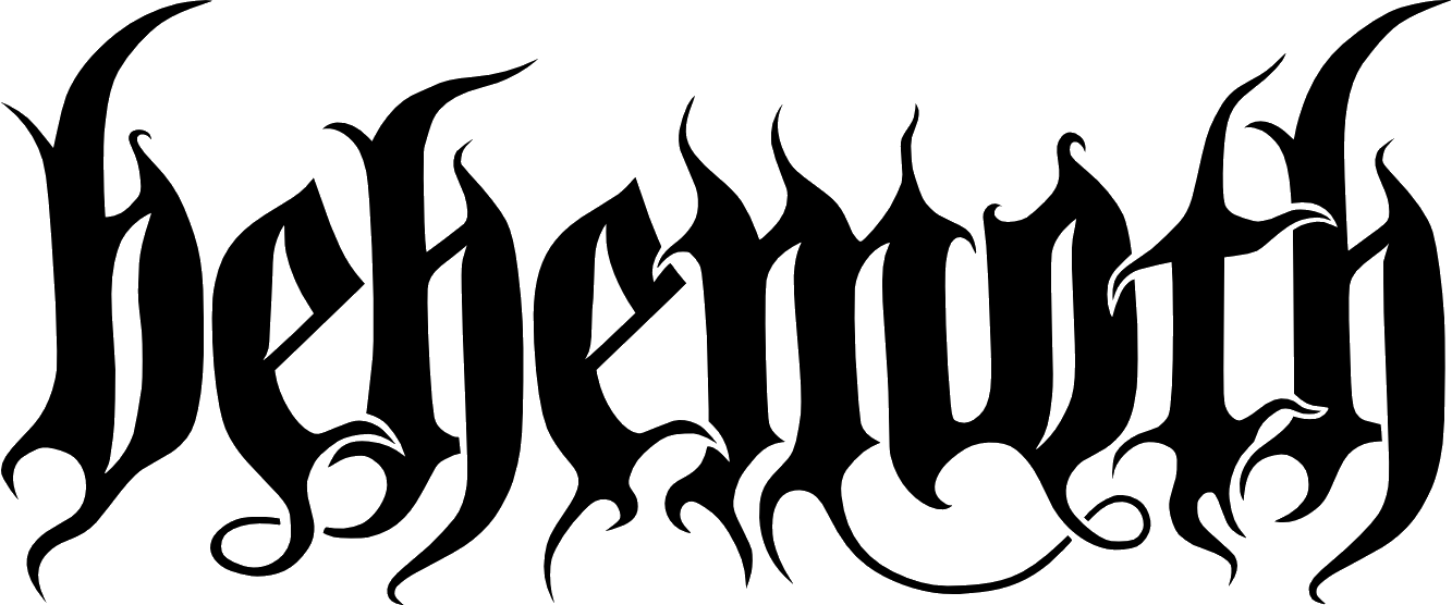 The logotype for the band Behemoth.